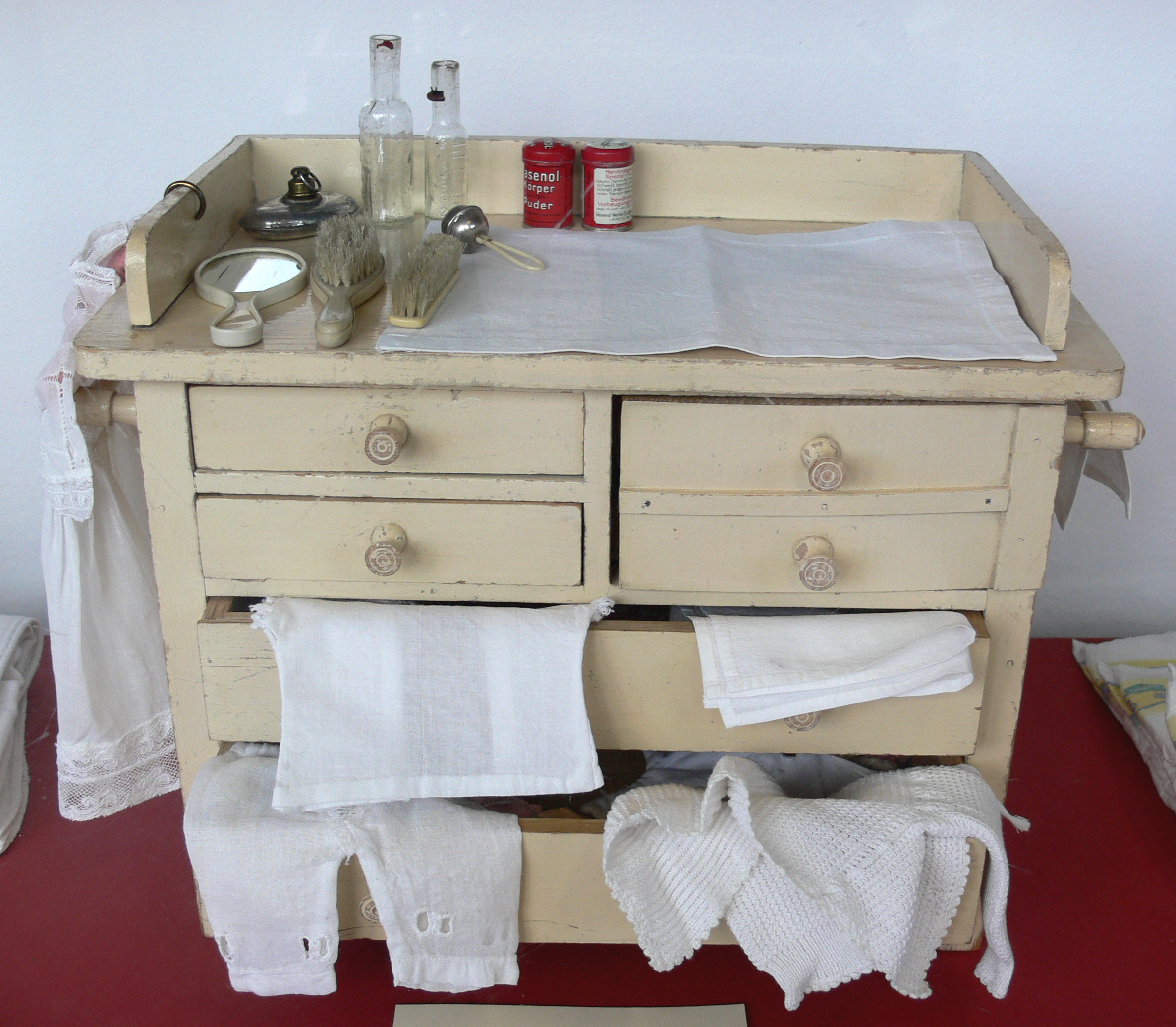 Doll's changing table, c. 1900